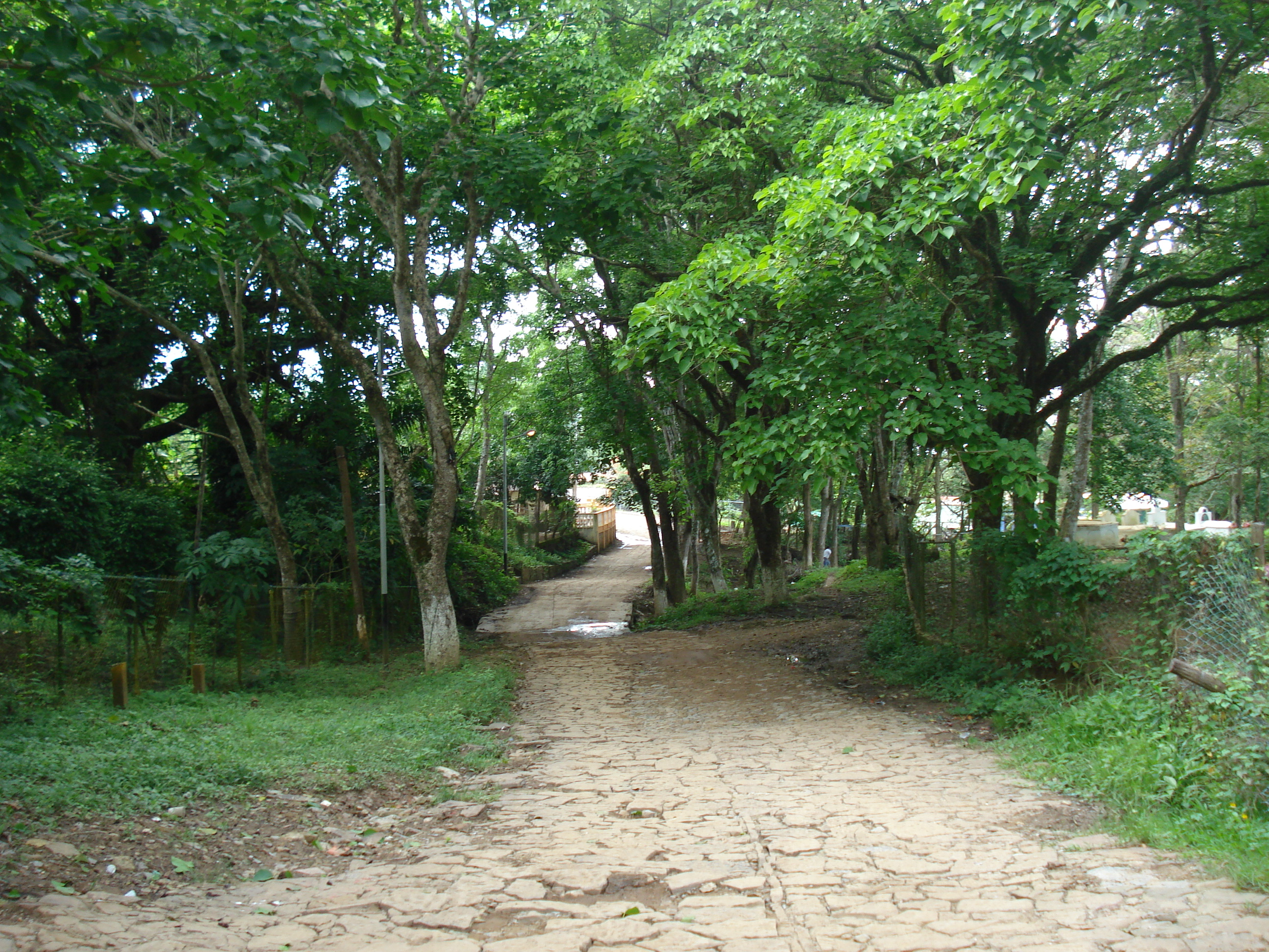 photo